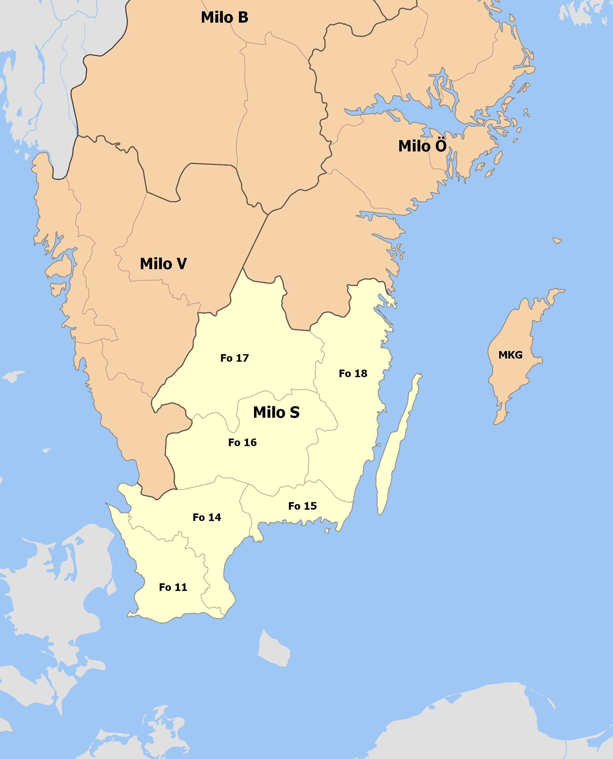 Swedish Military Area South (Milo S) 1988. After map in the collection in the Swedish War-Archives via SVAR. Data from Natural Earth have been used.